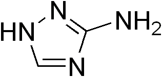 chemical structure of 3-Amino-1,2,4-triazole